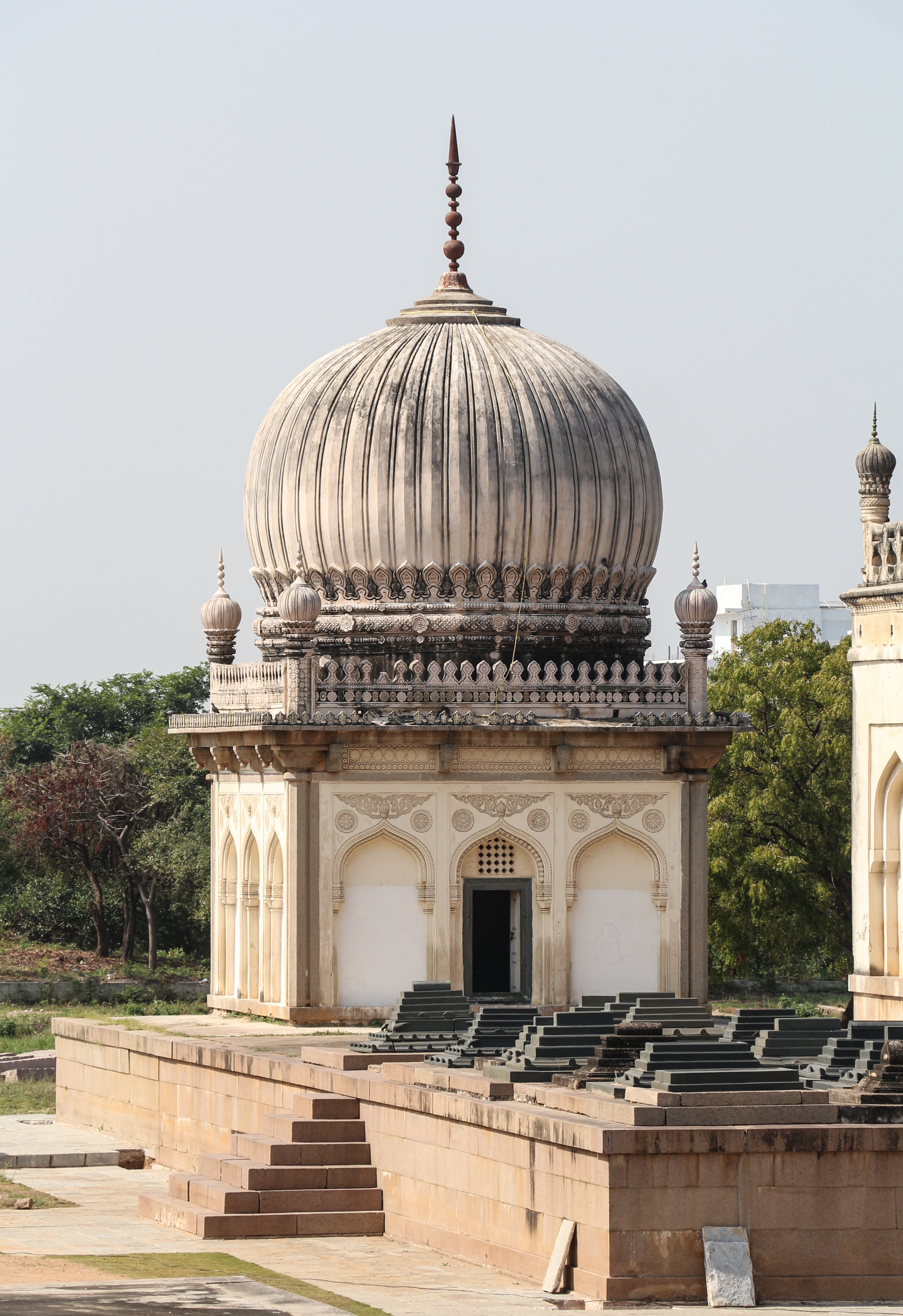 Tomb of Subhan Kuli Qutb Shah, Hyderabad, India